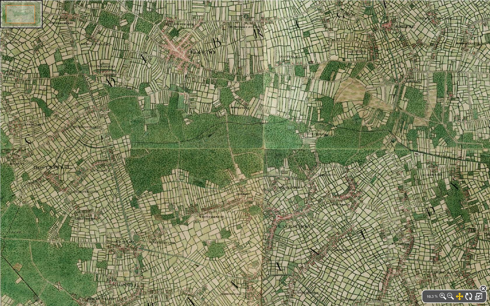 Het Leen-Lembeekse Bossen,_Belgium,_Ferraris,_1775